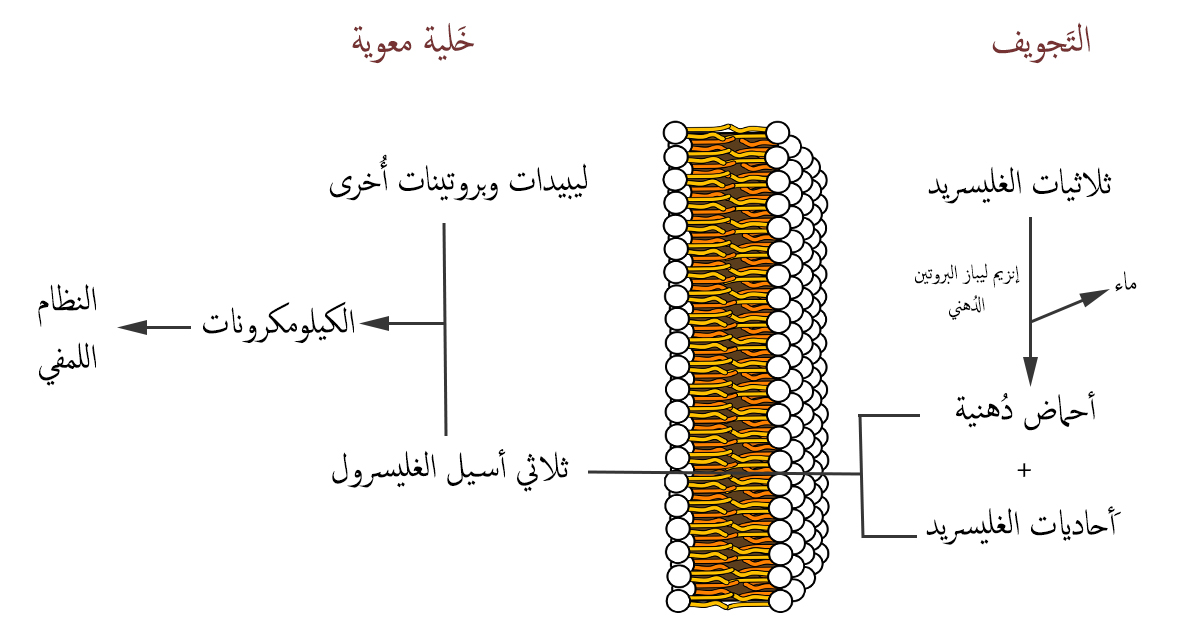 Chylomicron